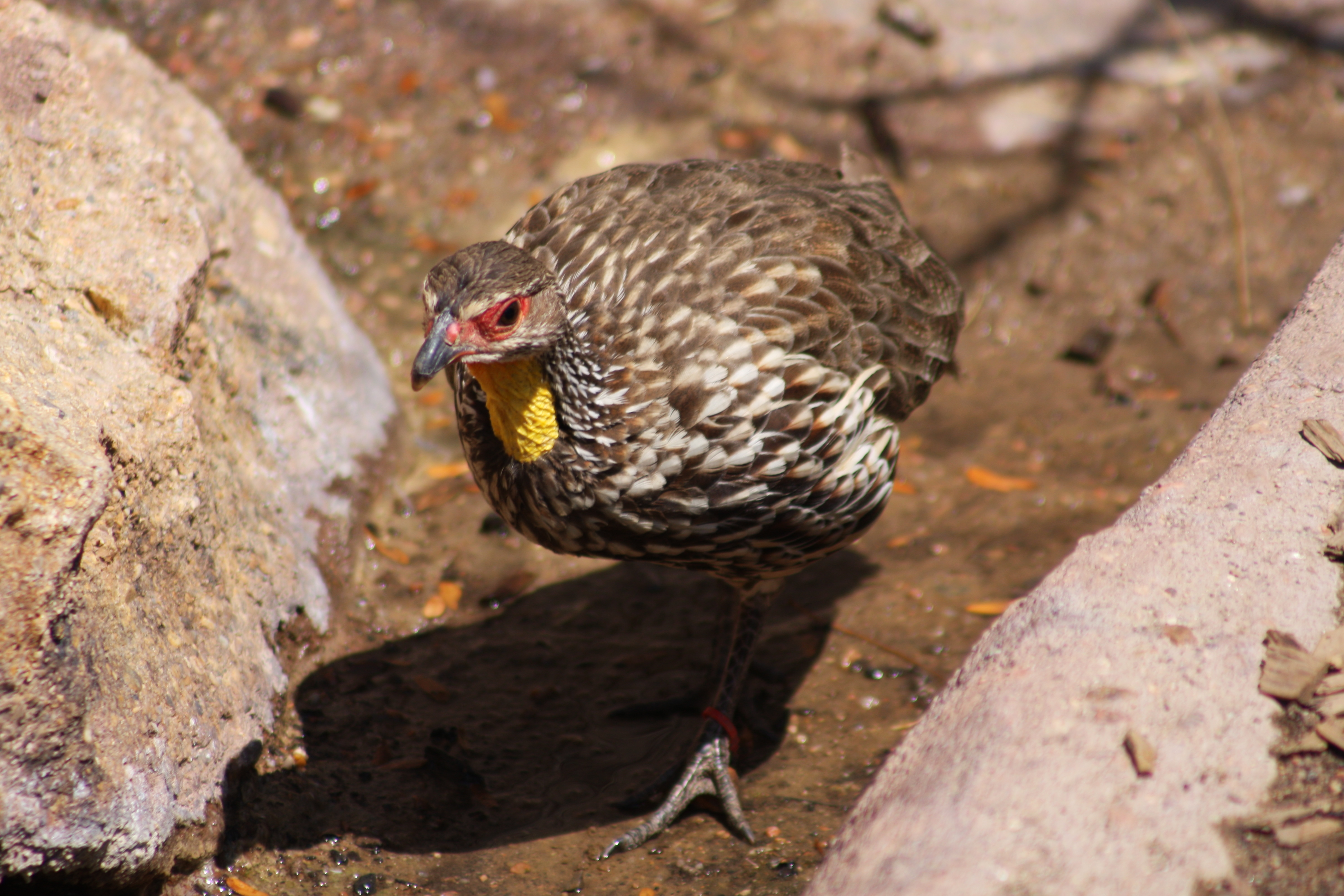 A Yellow-necked Spurfowl at Denver Zoo, Colorado, USA.